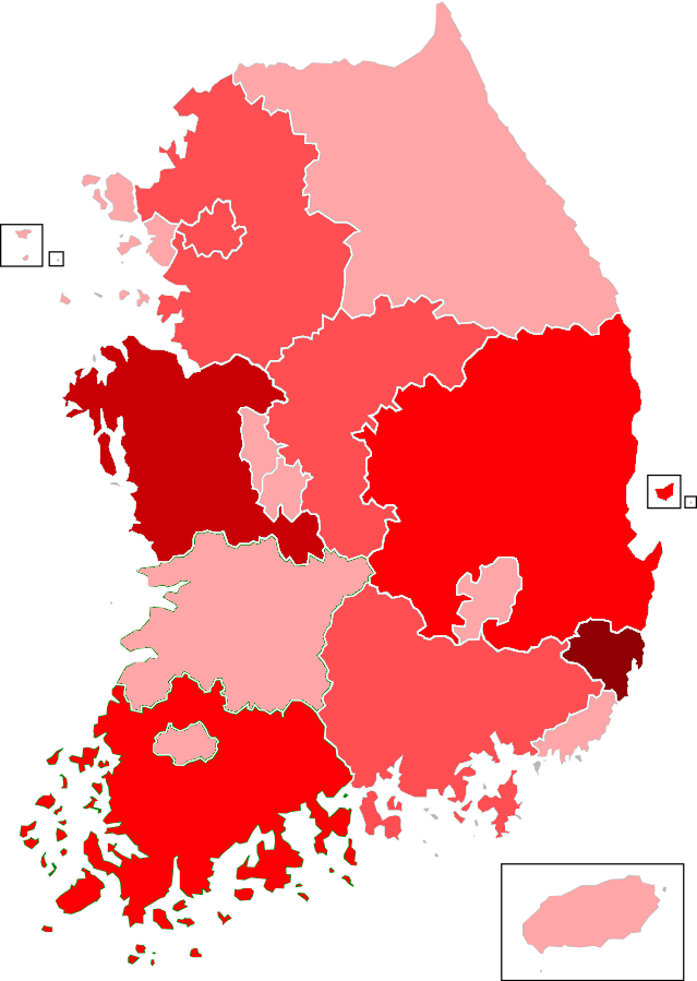 South Korean regions by per capita GDP. (2014)